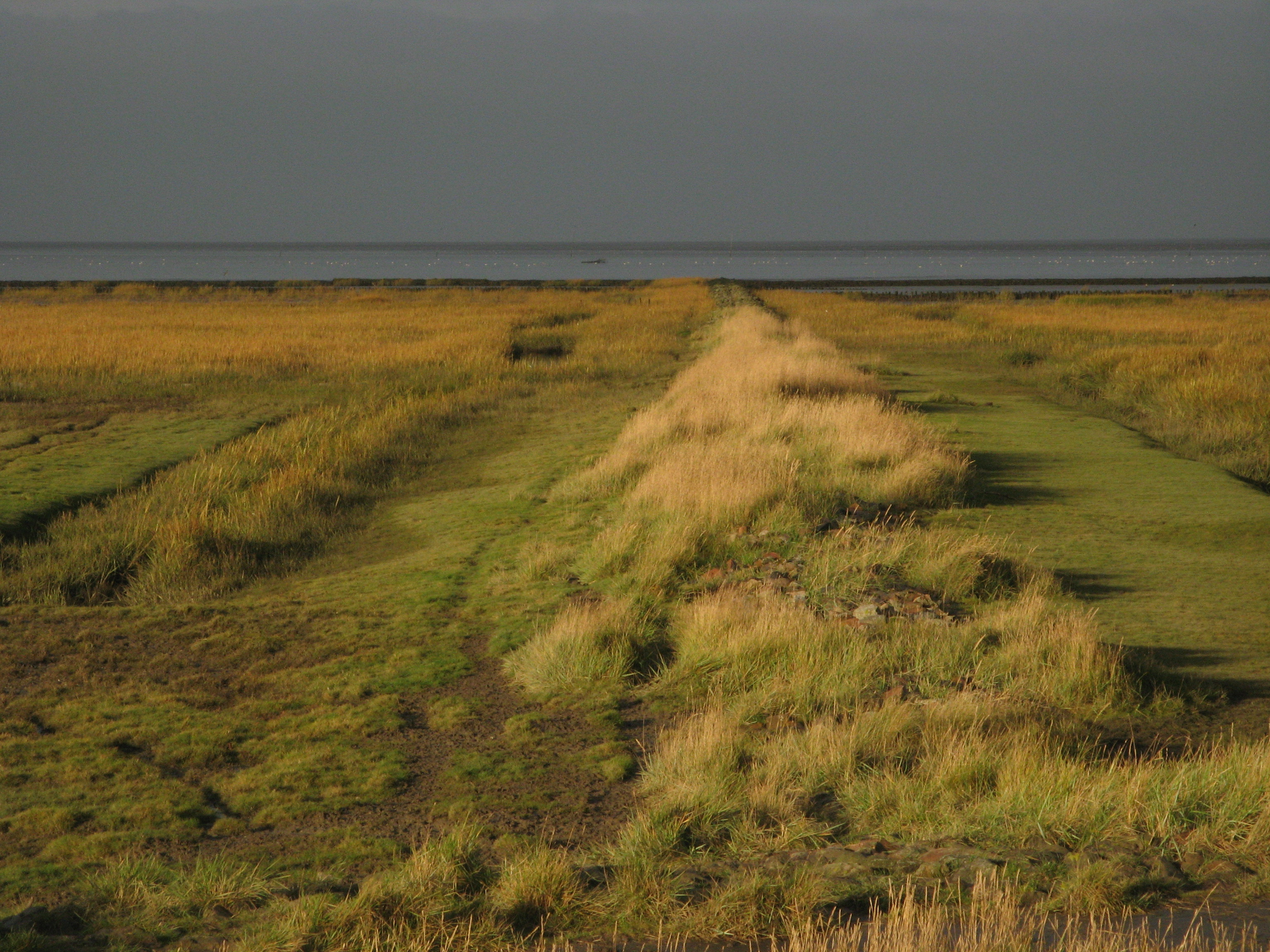 Saltmarshes in Wesselburenerkoog, schleswig-holstein, germany